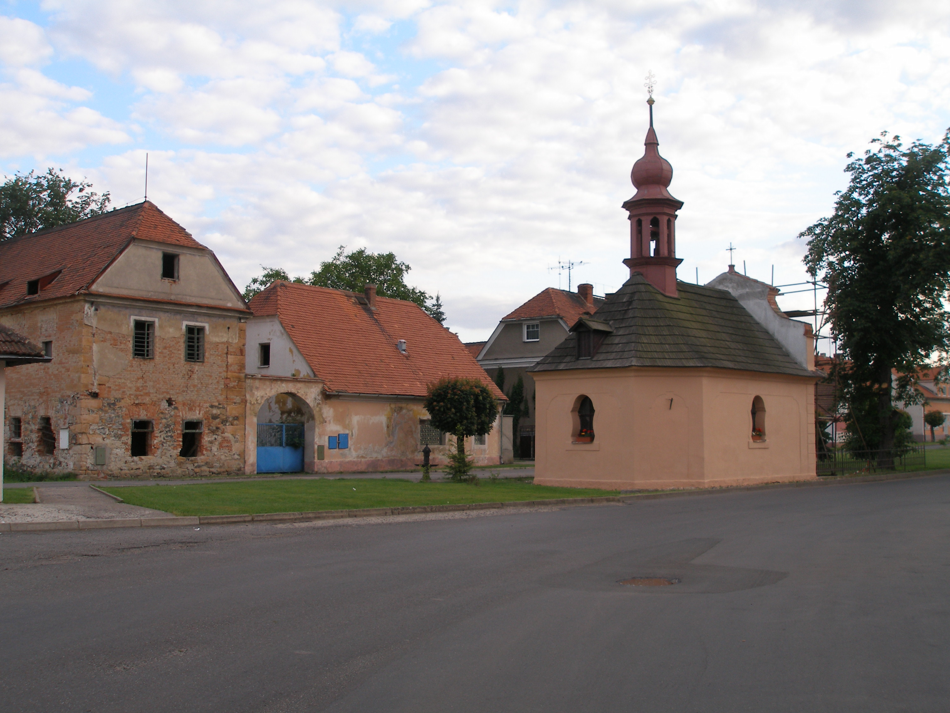 Square with the chapel in Račetice